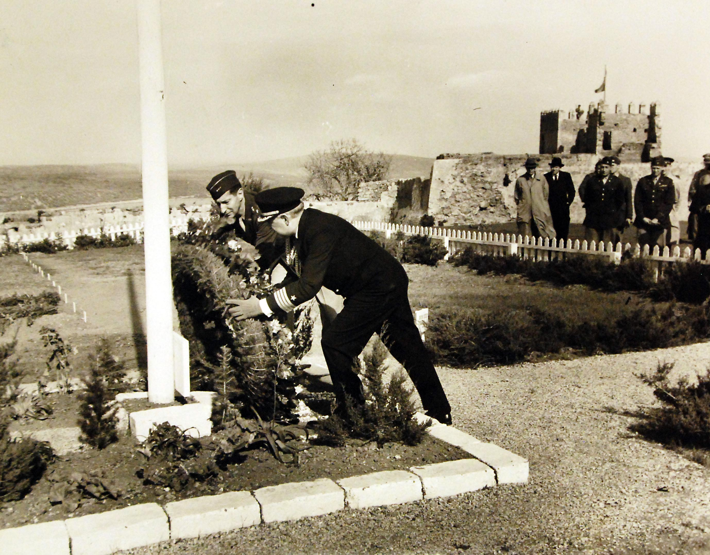 Lot-11573-4: North African Campaign, November 1942 to May 1943. French Morocco, Africa. General Mark Clark and Captain John L. McCrea, a Naval aide, laying the Presidential wreath against a flagpole in the U.S. Military Cemetery, near the entrance to the Kasbah Mehdia, ancient Portuguese fortress near Port Lyautey around which fighting raged for three days when the Americans landed in French Morocco in November 1942. Close to this flagpole are white crosses marking graves of American soldiers and behind them are French graves. Photographed January 1943. U.S. Army Photograph, from Office of War Information Collection. Courtesy of the Library of Congress. (2016/06/17).